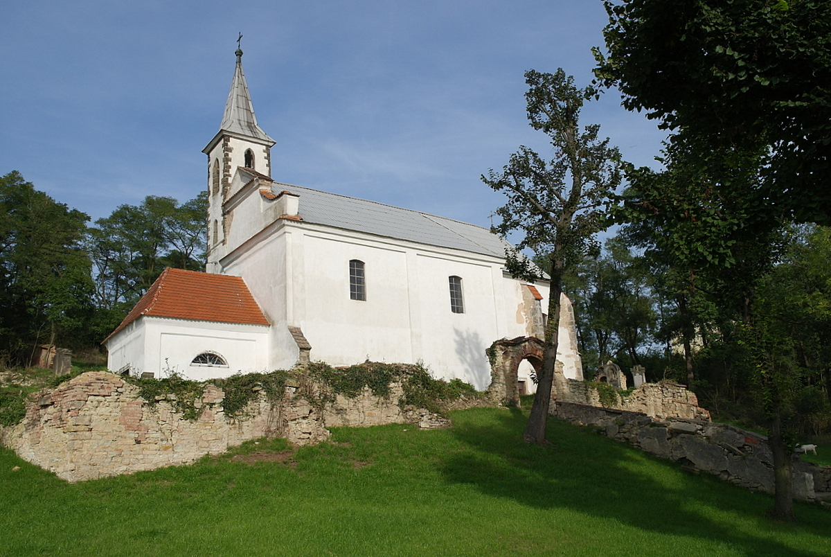 Church of St. Wenceslas, Straškov, Straškov-Vodochody municipality. Originally Gothic of the 14th century, rebuilt in Baroque style in the 18th century. General view from the southwest.